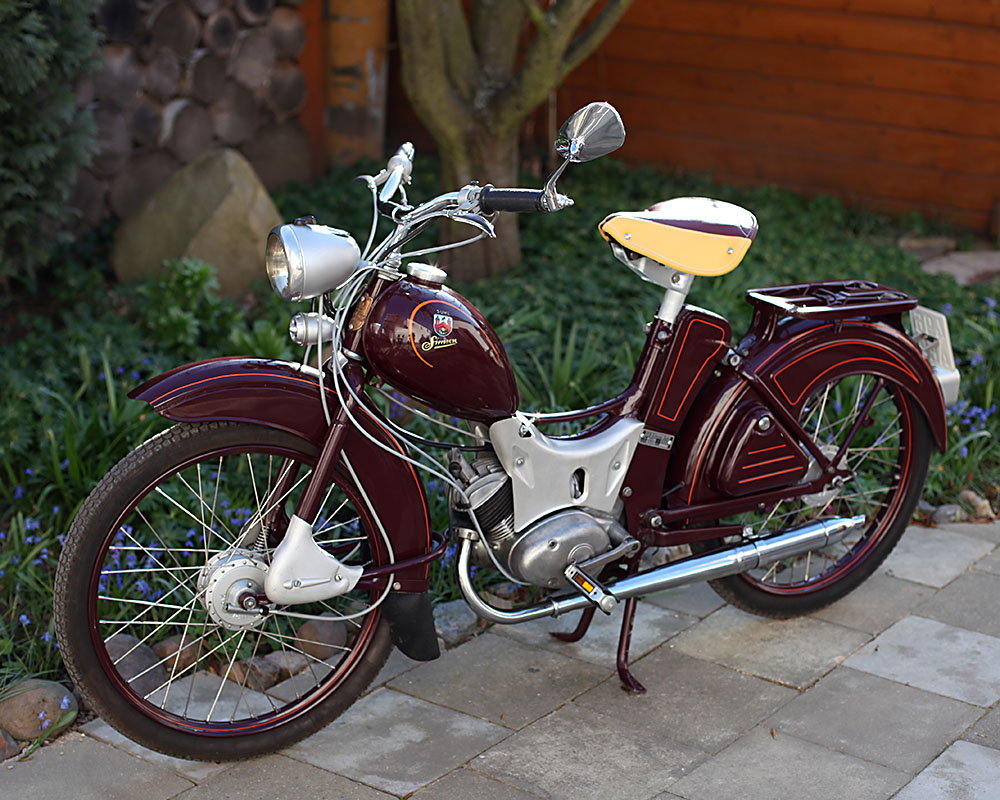 Simson SR2E complete restored